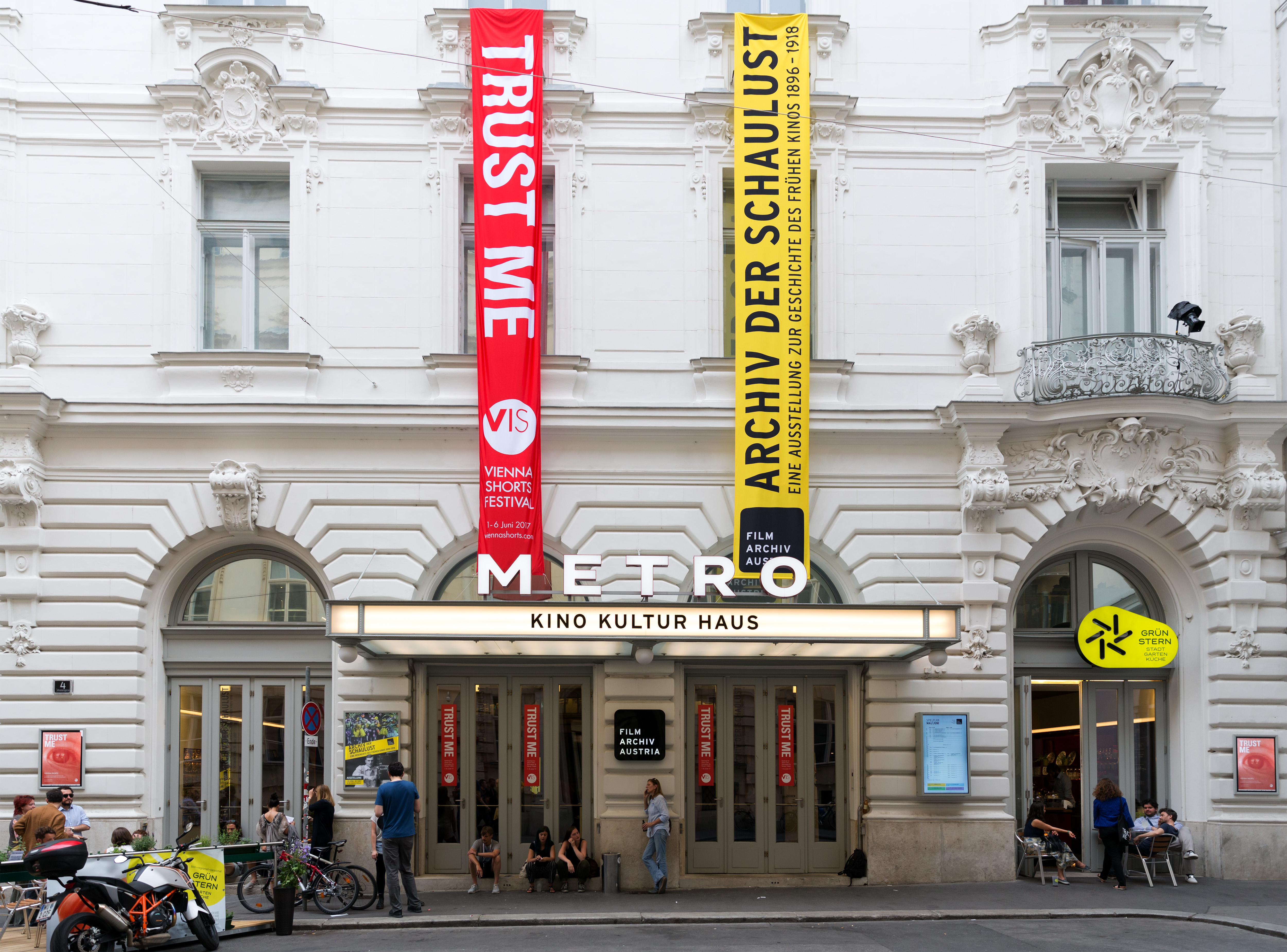 Evening of the awards ceremony of the short film festival Vienna Shorts 2017, Metro Kinokulturhaus in Vienna, Austria.